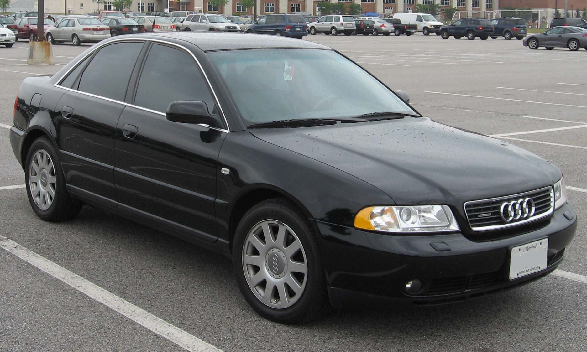 1995-2001 Audi A4 Quattro photographed in USA.